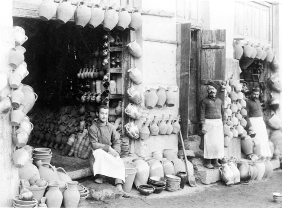 Men with pottery in front of two stores, Tbilisi, Georgia